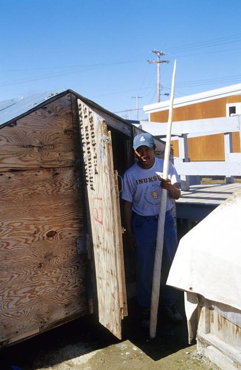 Inuit Artist Tony Atsaniq with tusk of a narwhal (Qikiqtarjuaq, 2001)